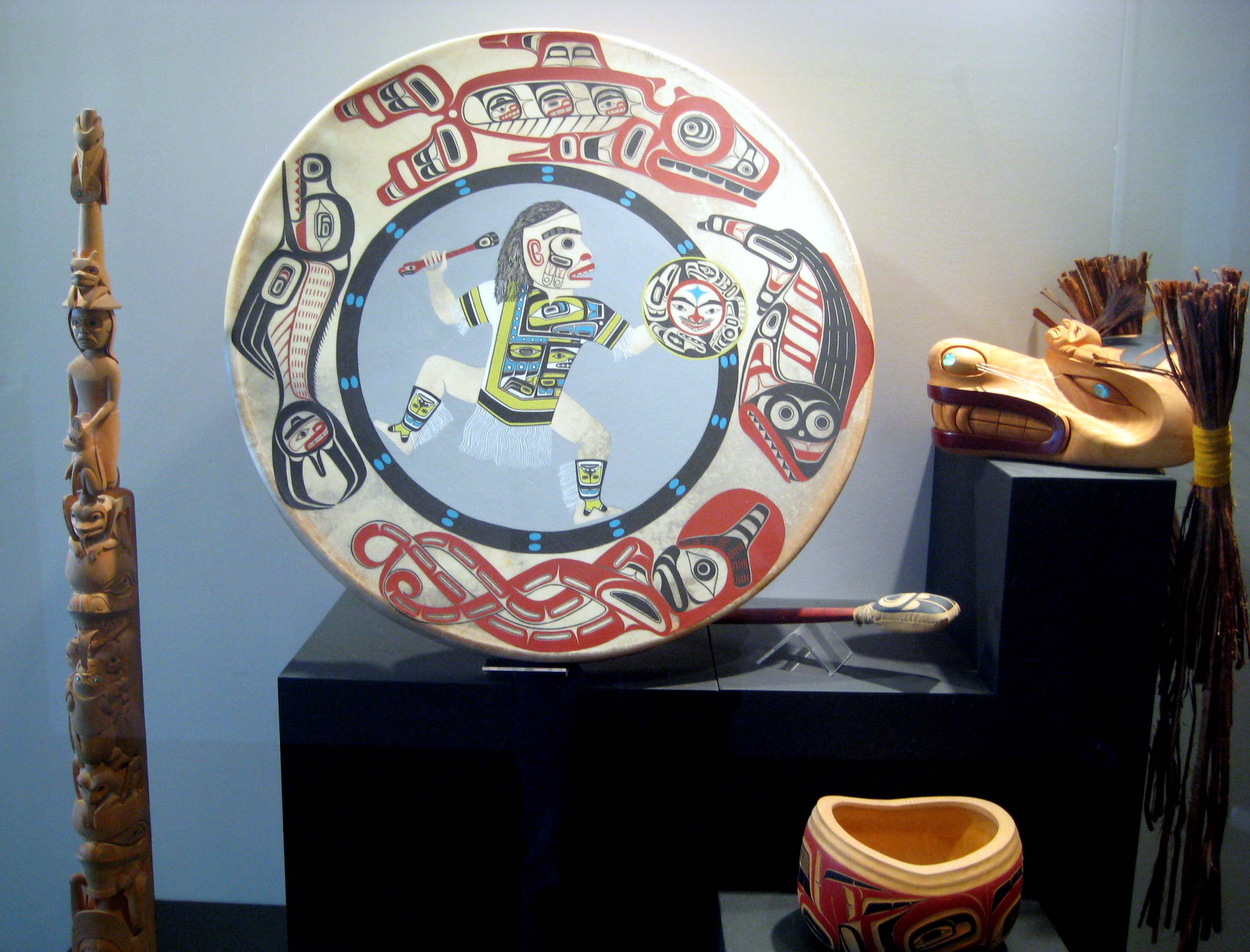 Tsimshian art